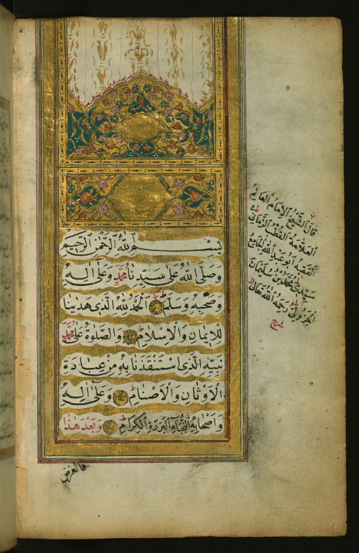 This opening page from Walters manuscript W.583 has an illuminated headpiece with polychrome floral design. There is also interlinear gilt decoration.